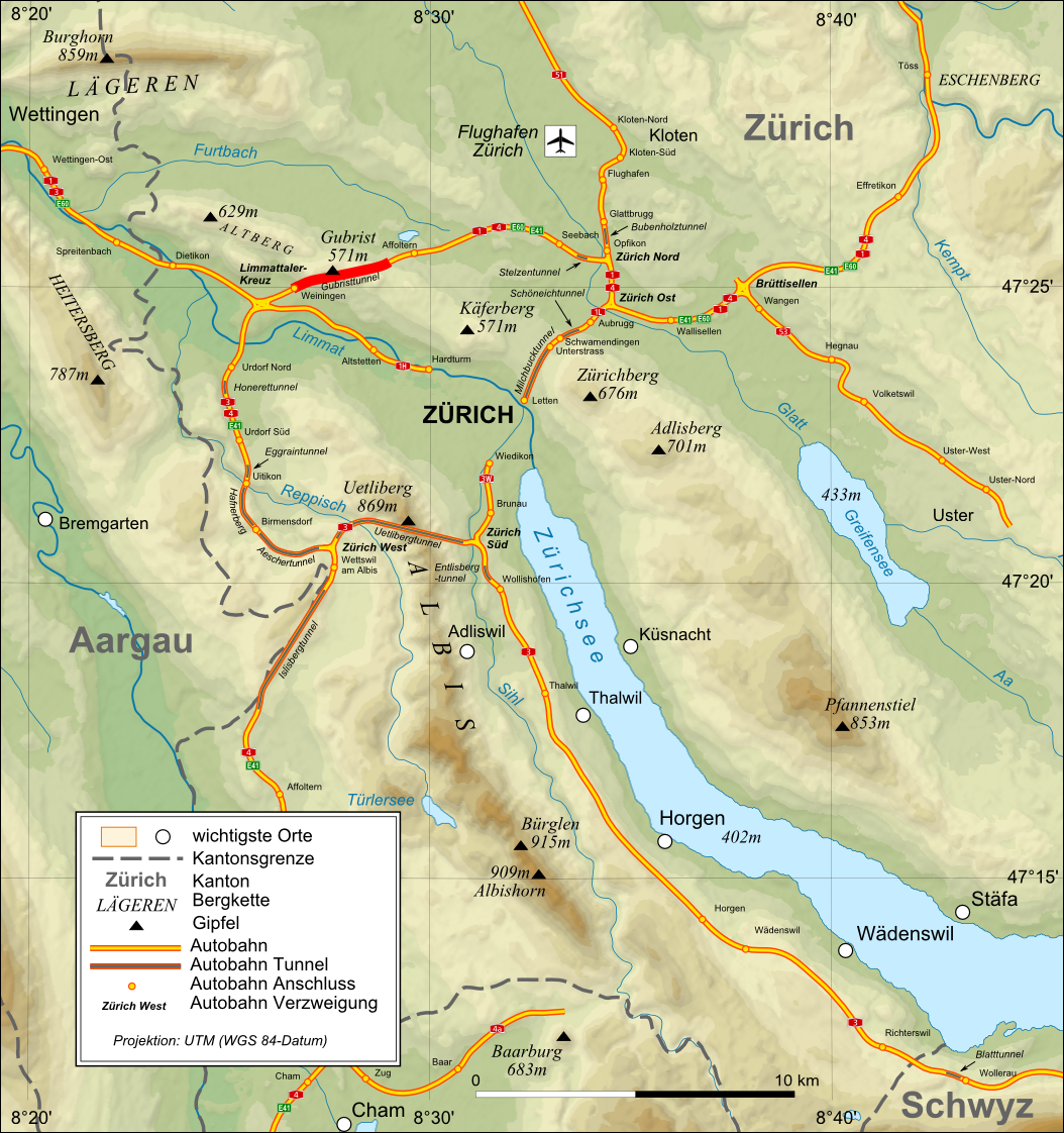 Map showing the motorways of the area of Zürich, Switzerland, png version, location of Gubrist Tunnel marked